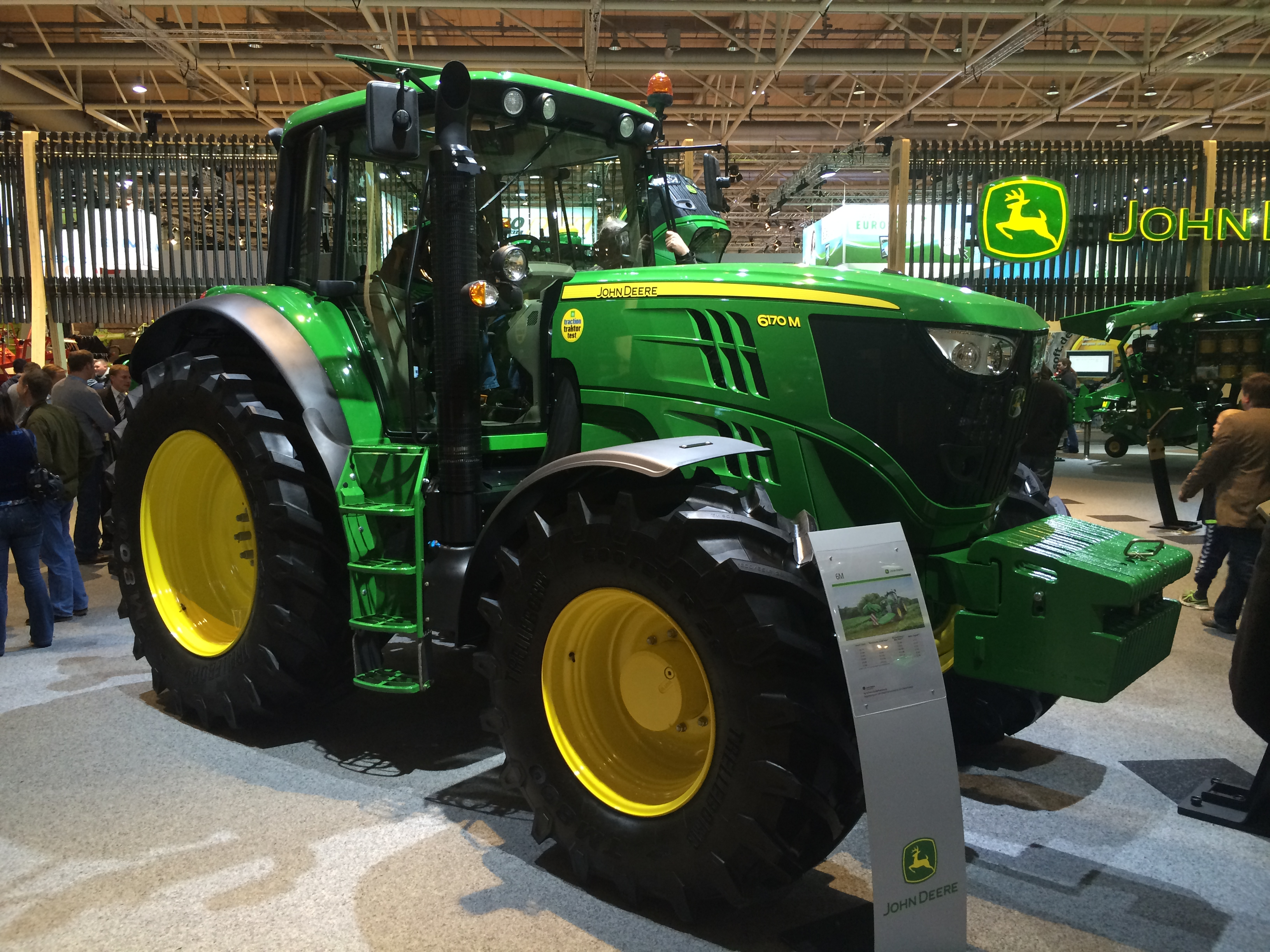 John Deere 6170 M, Agritechnica